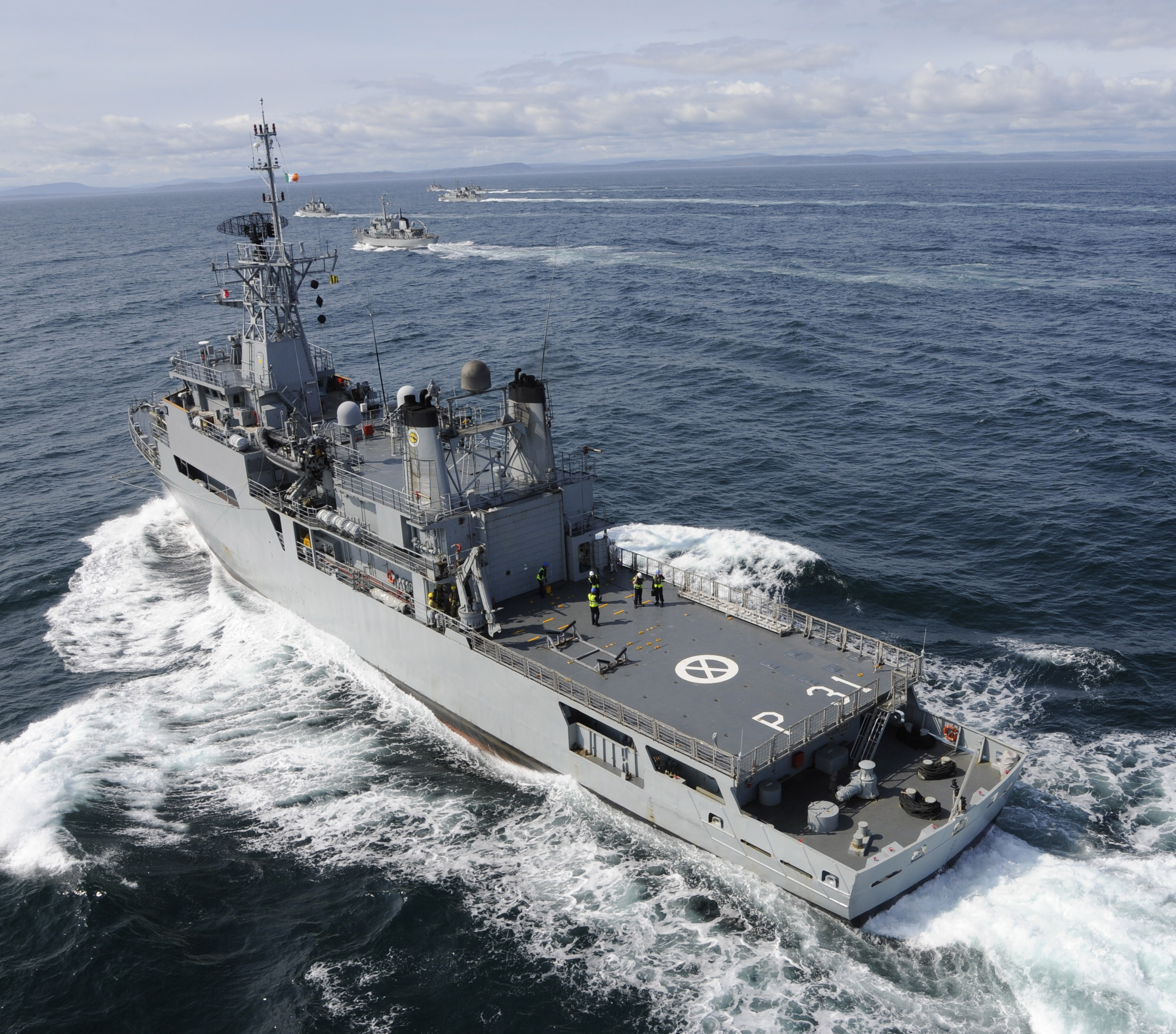 The LE Eithne as seen by the Air Corps during the annual Naval Exercise